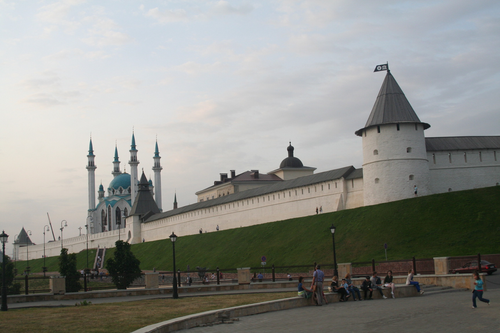 Kazan Kremlin